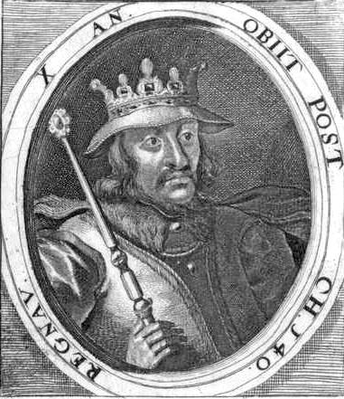 Harald 2., a legendary Danish king from a mythological past (long prior to the 8th century).